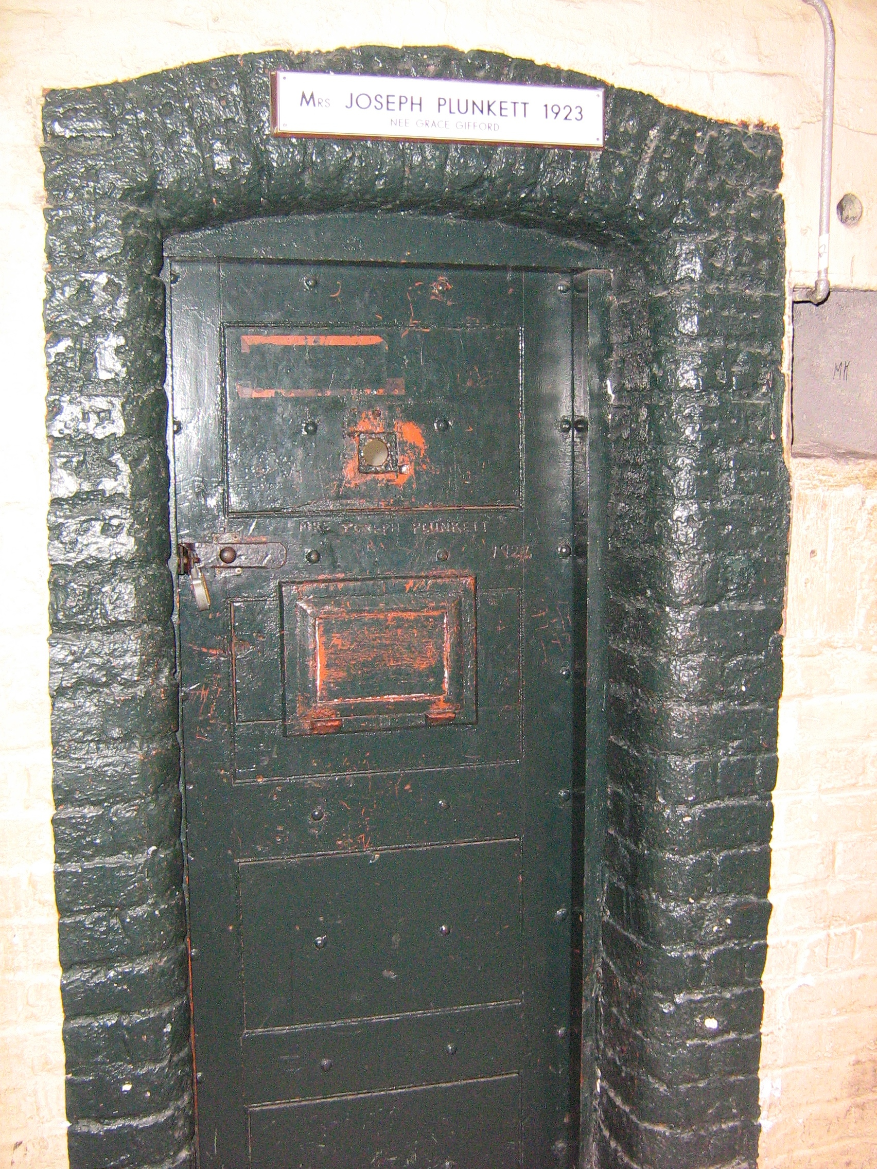 Prison cell of Grace Gifford, wife of Joseph Mary Plunkett, at Kilmainham Gaol.jpg